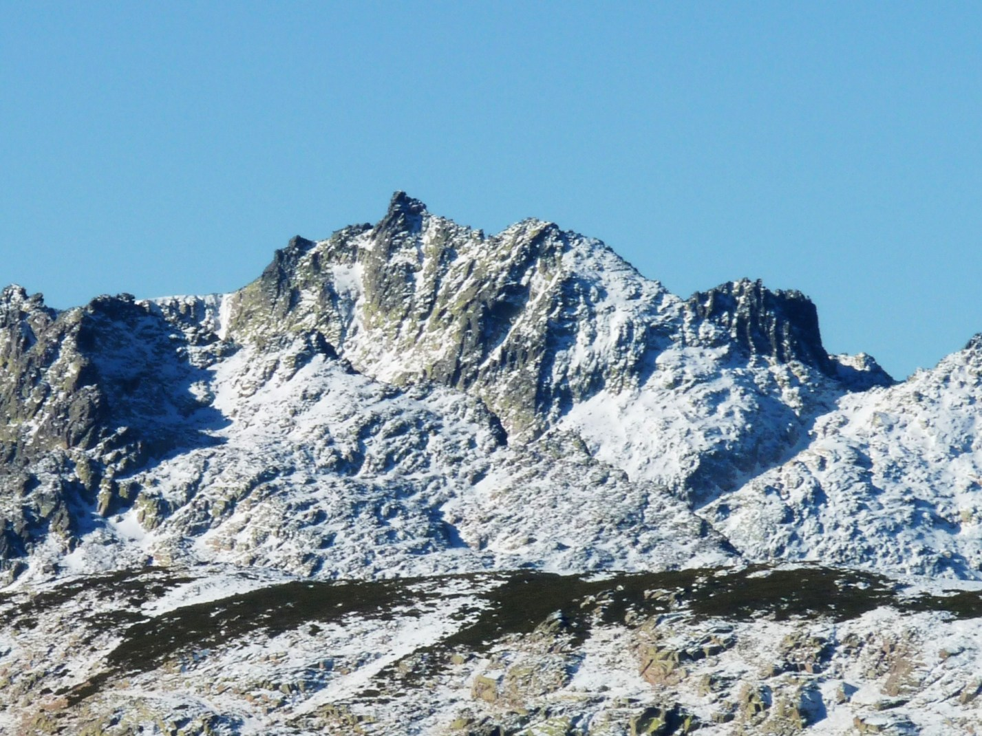 Peak of "La Galana" in the Sierra de Gredos mountain range (Castile and León, Spain).